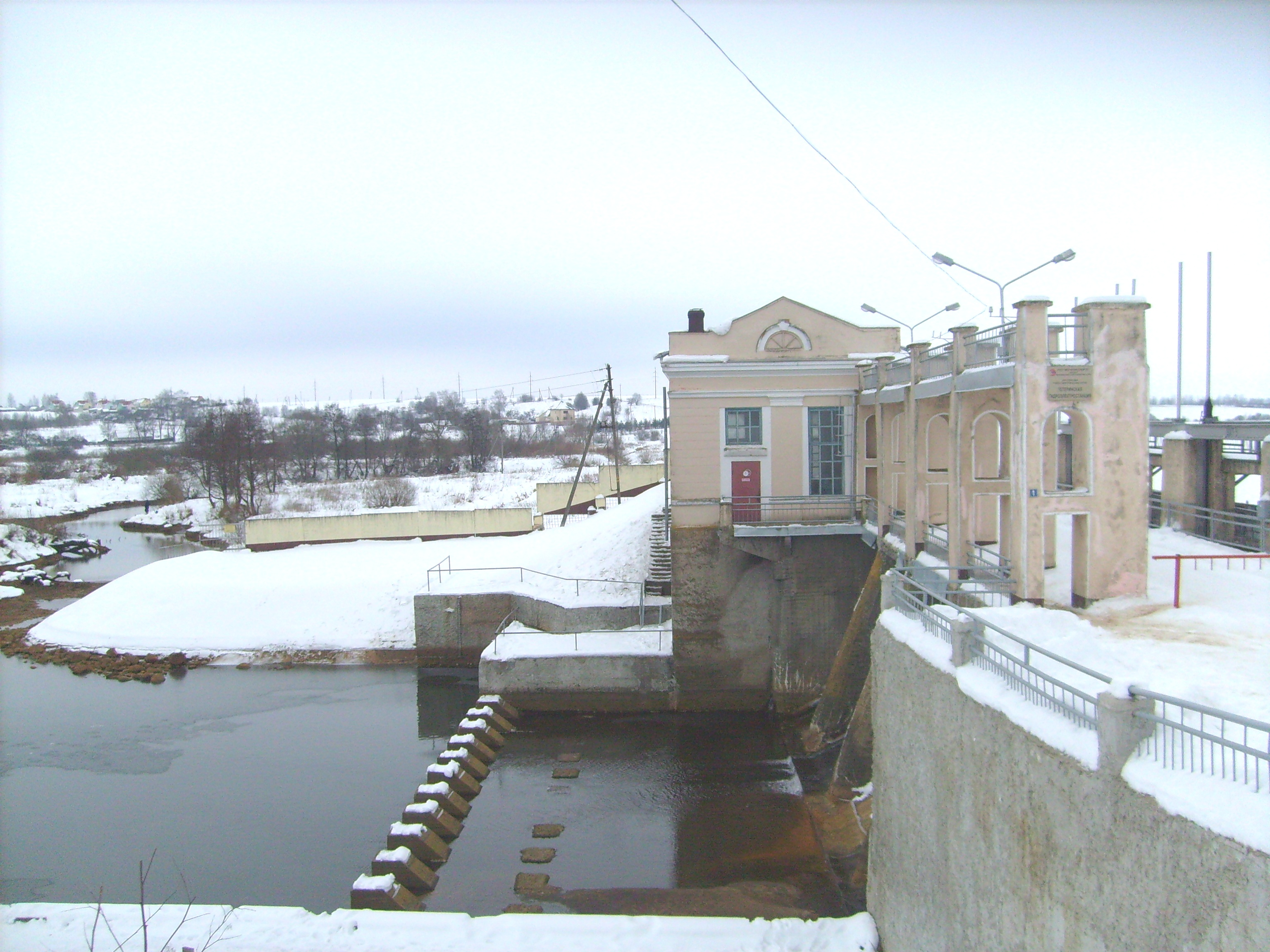 Teterino Hydroelectric Power Station